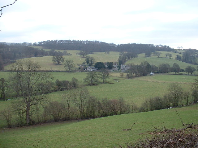 Looking across Afon y Maes to the Leyland Arms. Afon y Maes means 'river in the fields'